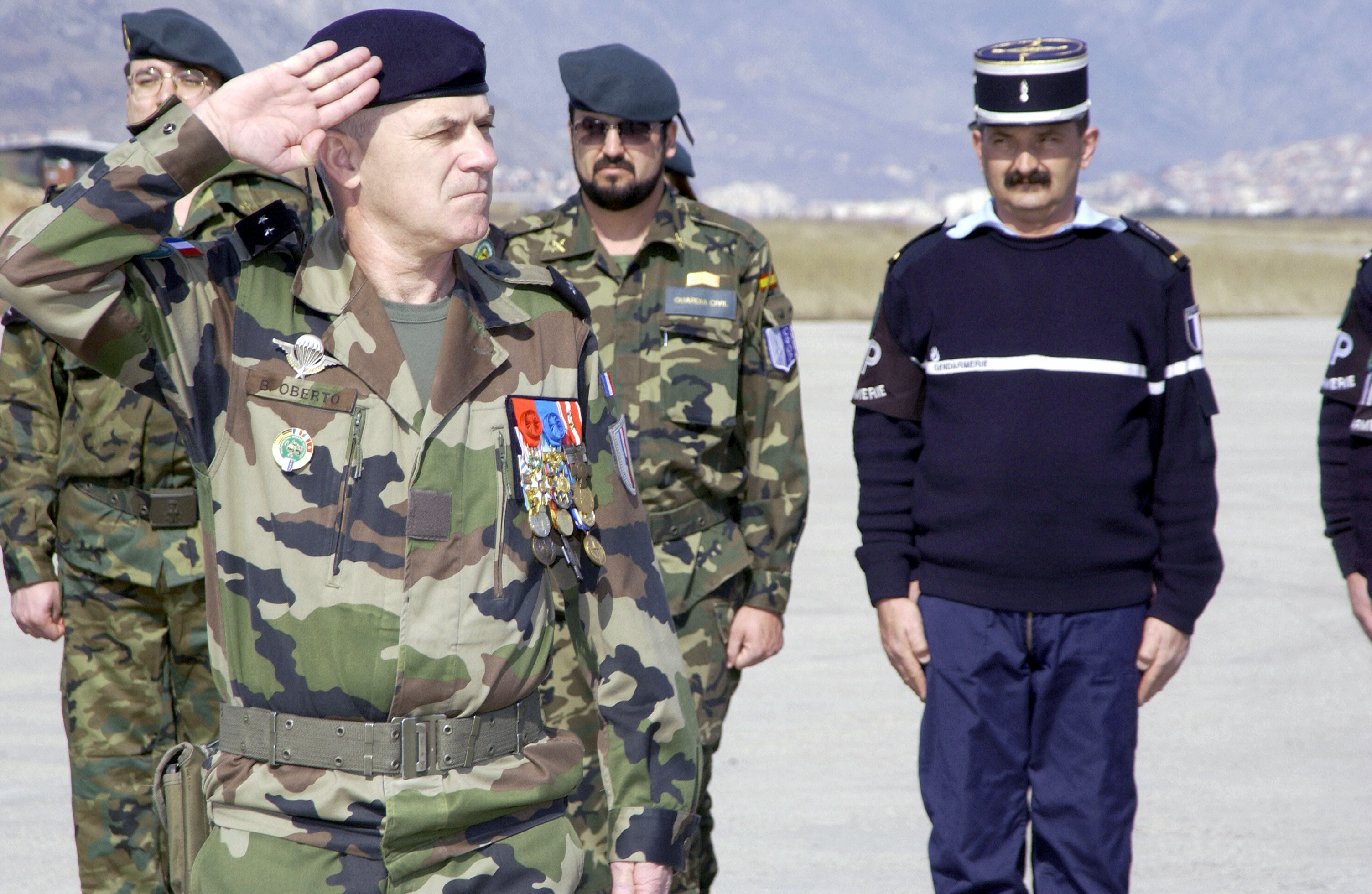 French Army Brigadier General (BGEN) Oberto, Commander of Multinational Brigade (MNB-SW), inspects the Multinational Northern Brigade-South West North Atlantic Treaty Organization (MNB-SW NATO) military members as they stand at attention during the transfer of authority ceremony at Mostar, Bosnia and Herzegovina. (Released to Public)